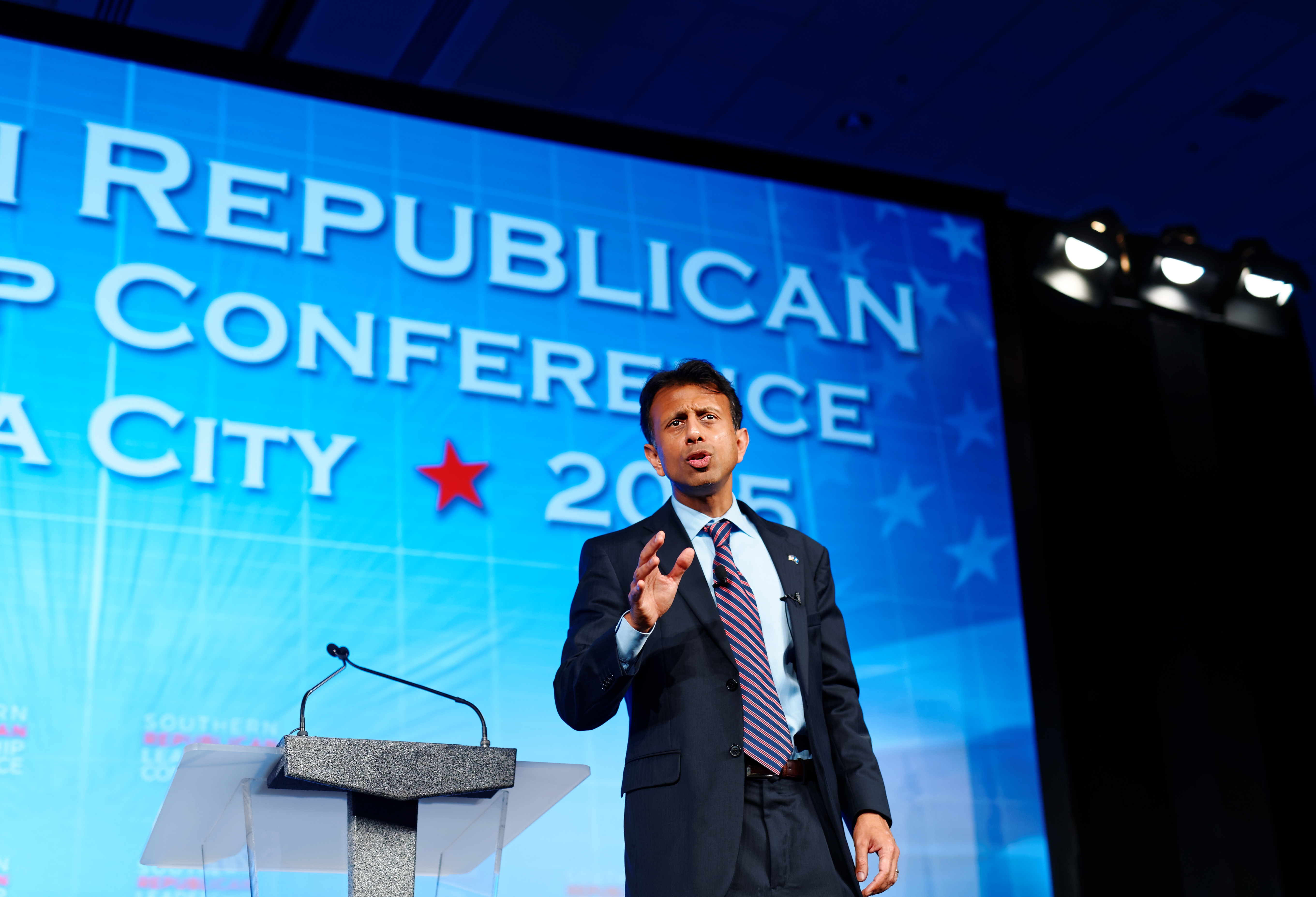 SRLC now RLC